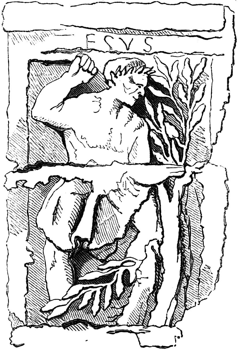 Esus “[...] Under the church of Notre Dame, at Paris, were found in the last century two bas-reliefs of Celtic deities, the one Cerunnos (Fig. 11), the other Hesus (Fig. 12), corresponding to the Roman Mars.”